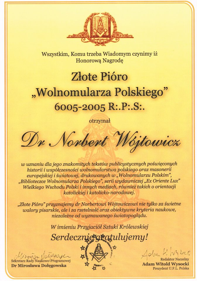 Award diploma of the Polish masonic magazine "WOLNOMULARZ POLSKI" for the best author writing about Freemasonry.